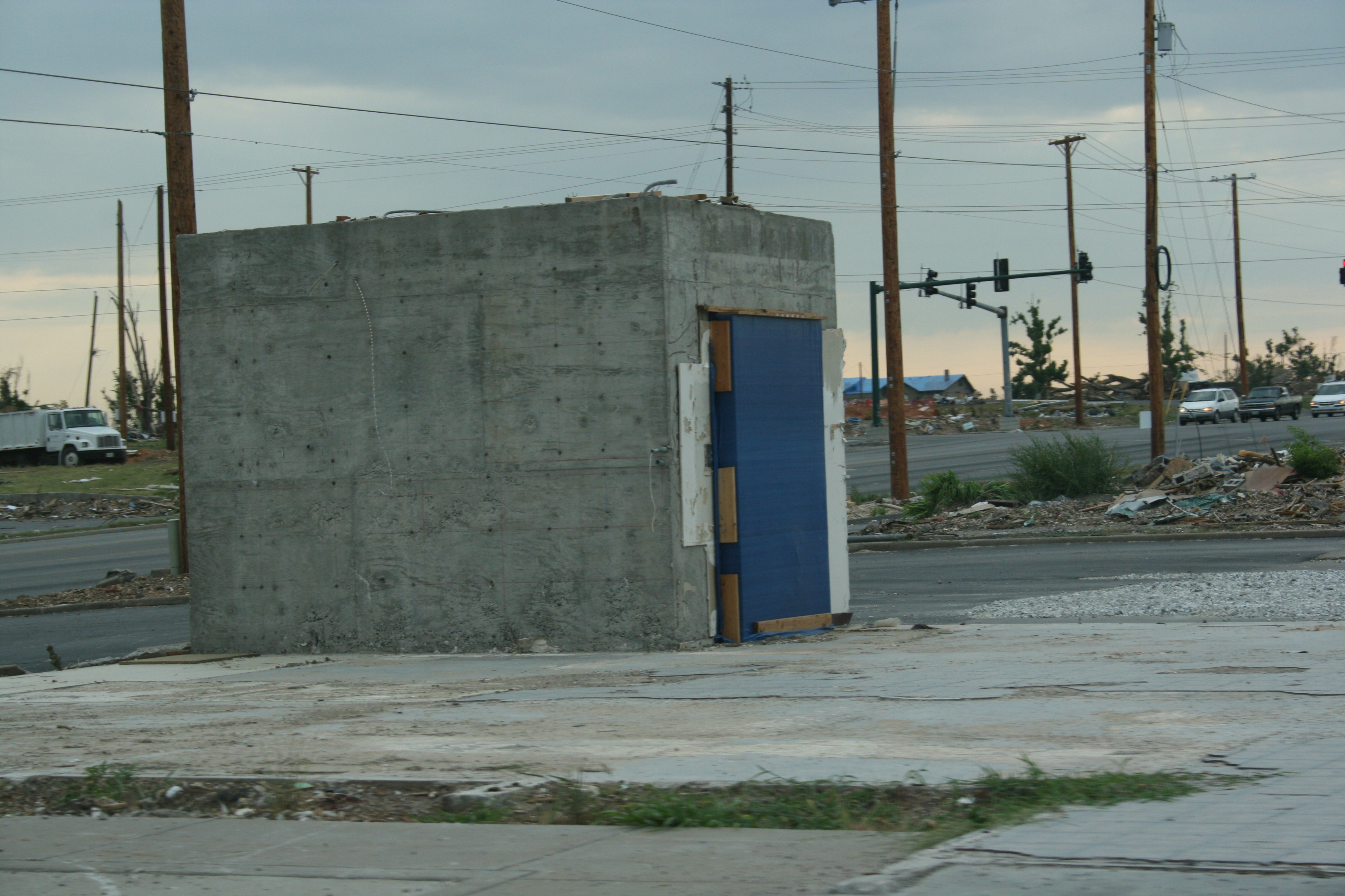 A bank safe deposit vault remains standing after a tornado destroyed much of Joplin, Missouri May 22, 2011.